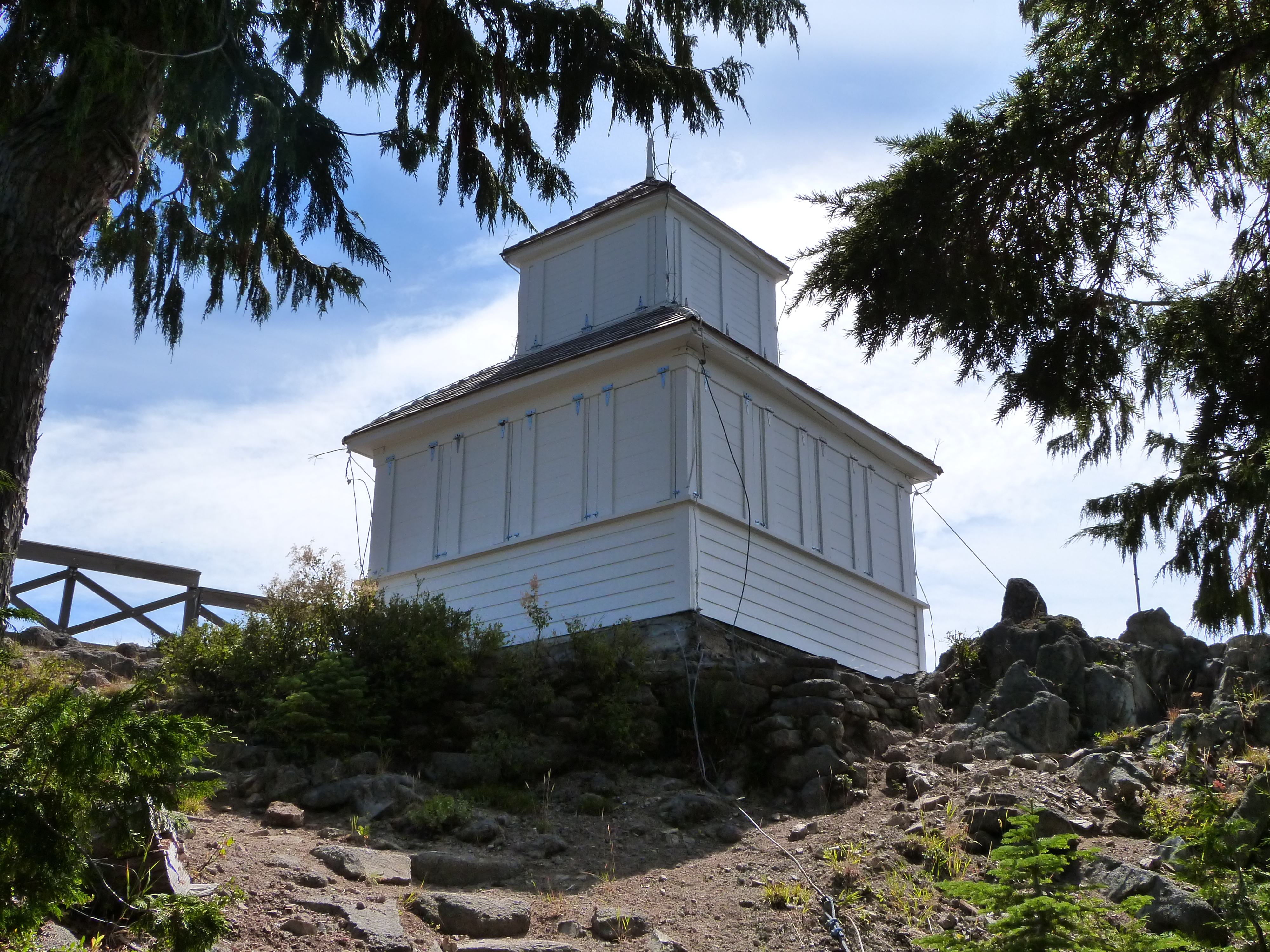 The historic Hershberger Mountain Lookout (built 1925), located in the Rogue River – Siskiyou National Forest, Oregon, United States, is listed on the US National Register of Historic Places.